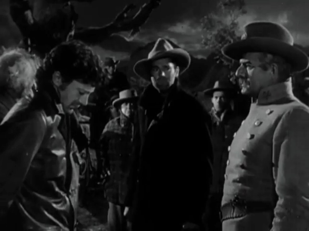 Left to right: Dana Andrews, Henry Fonda, and Matt Briggs in The Ox-Bow Incident - trailer (cropped screenshot)